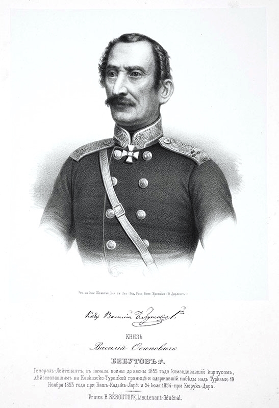 Prince Bebutov, Vasily Osipovich, Russian genral of the infantry.